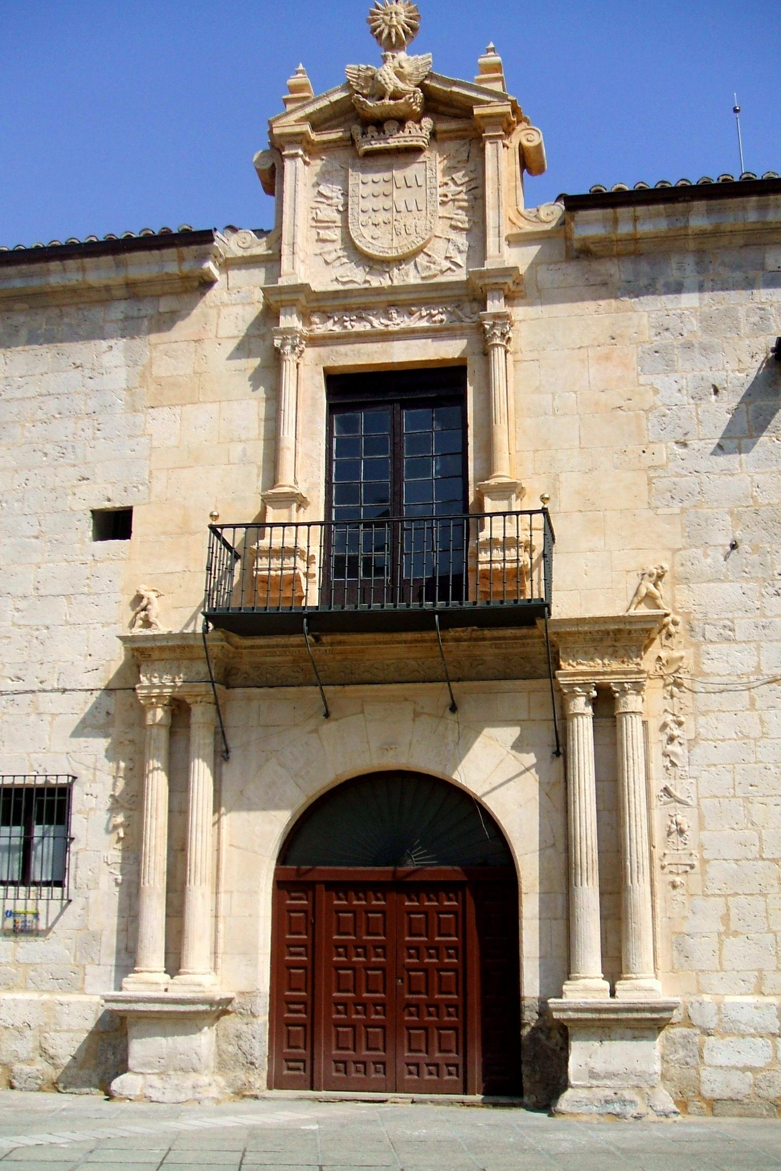 Casa del Sol, en Valladolid. Inmueble perteneciente al Museo Nacional Colegio San Gregorio (ex Museo Nacional de Escultura). Valladolid, España